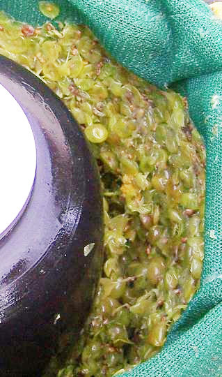 Image of pomace from Chardonnay grapes left in bladder wine press. Photo taken at Mountain Homebrew in Kirkland, WA on October 14th, 2007